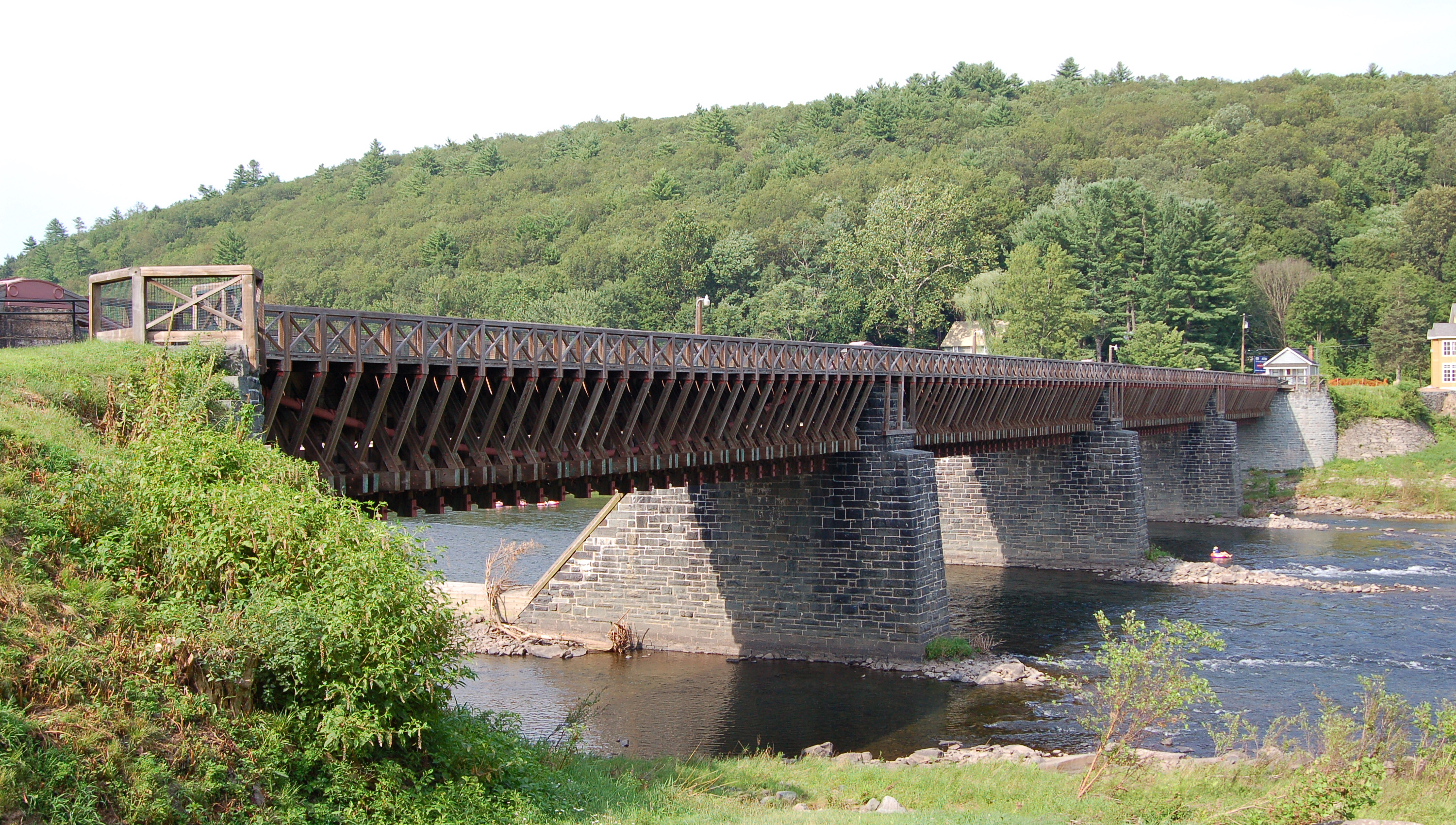 A photograph of Roebling's Delaware Aqueduct showing the bridge from the side.